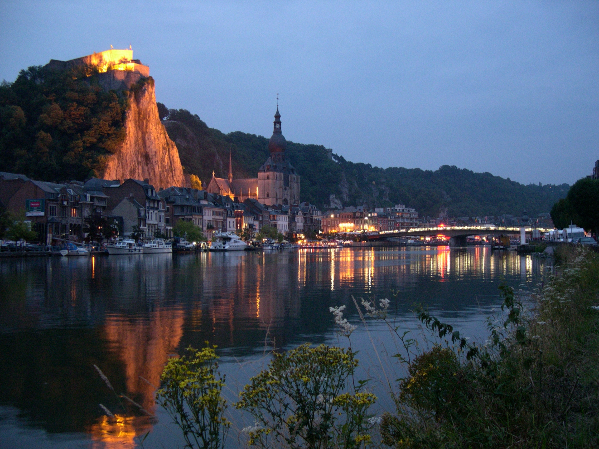 Dinant in Belgium.